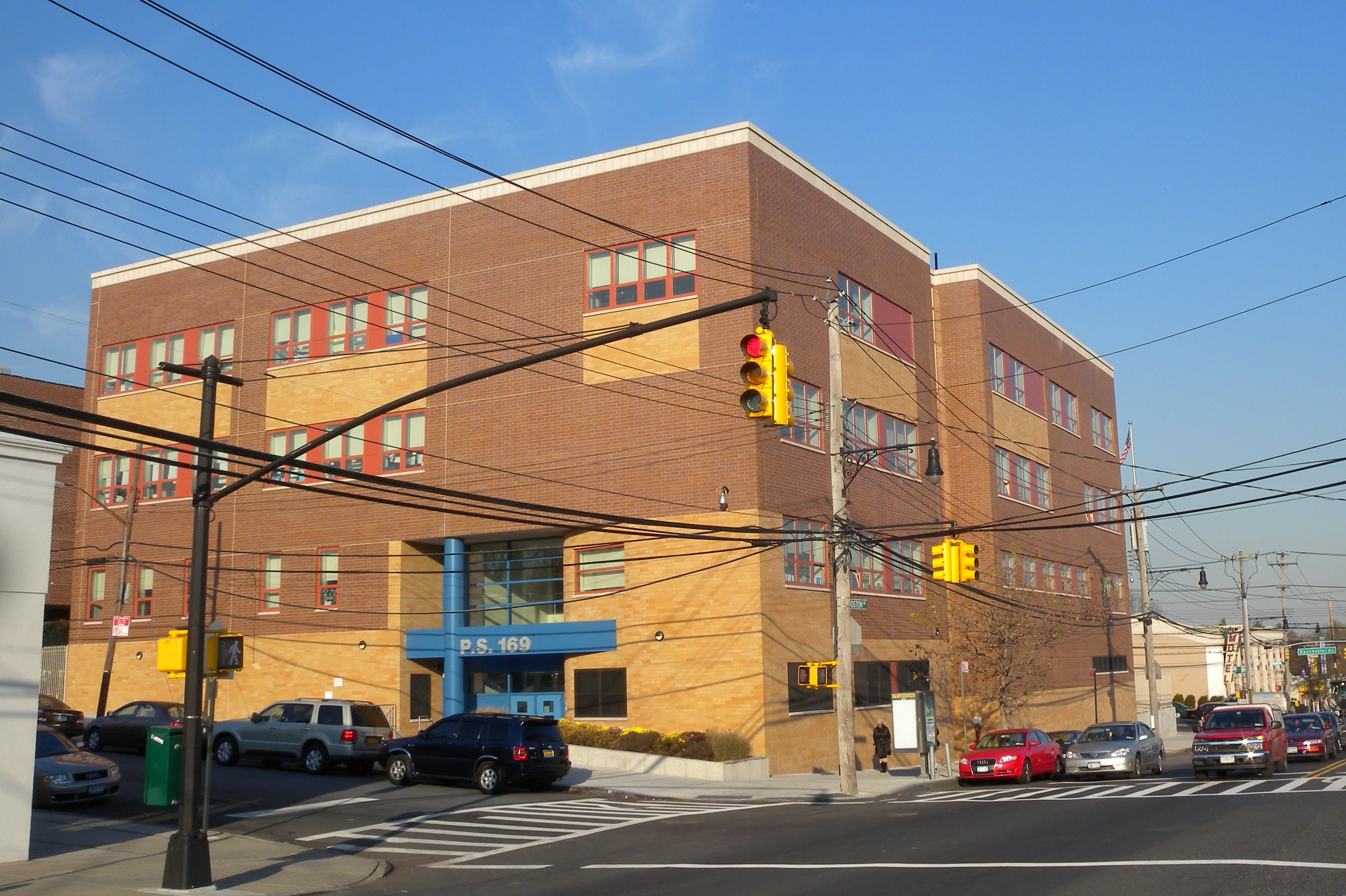 Looking north across Boston Road and Edison Avenue, Baychester, at the new PS 169 on a sunny afternoon.